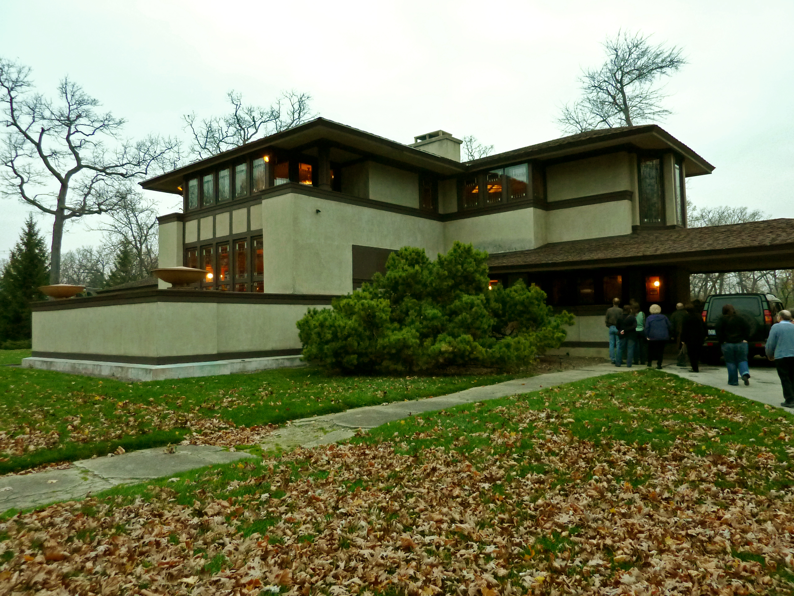 The Ward W. Willits House in Highland Park, Illinois, designed by Frank Lloyd Wright.